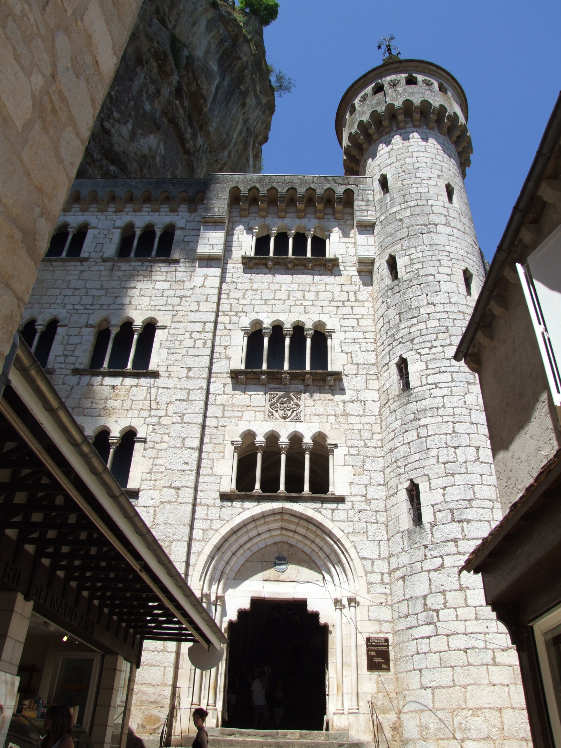 Rocamadour, Lot, France